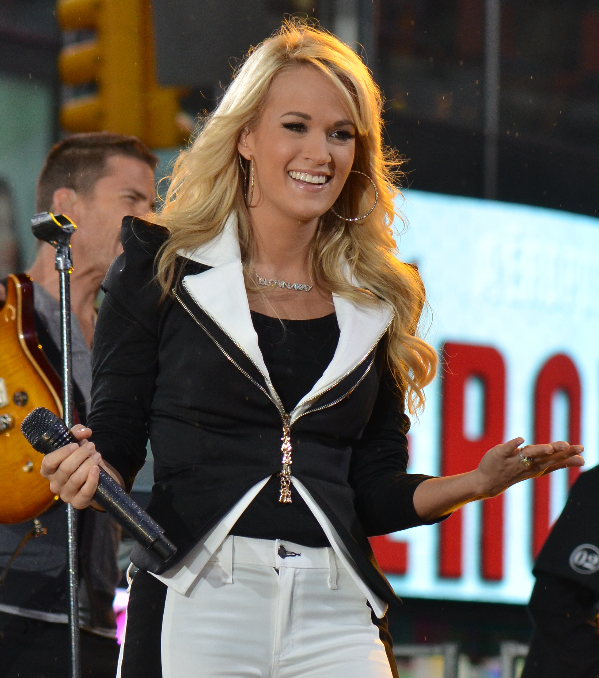 Carrie Underwood Live at Times Square in May 2012.